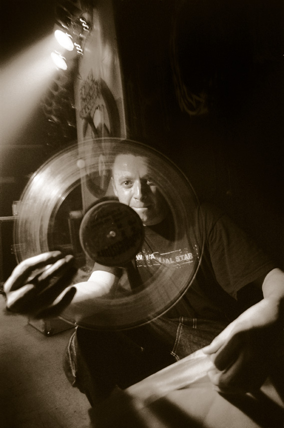 Hamburg, Schlachthof 1999